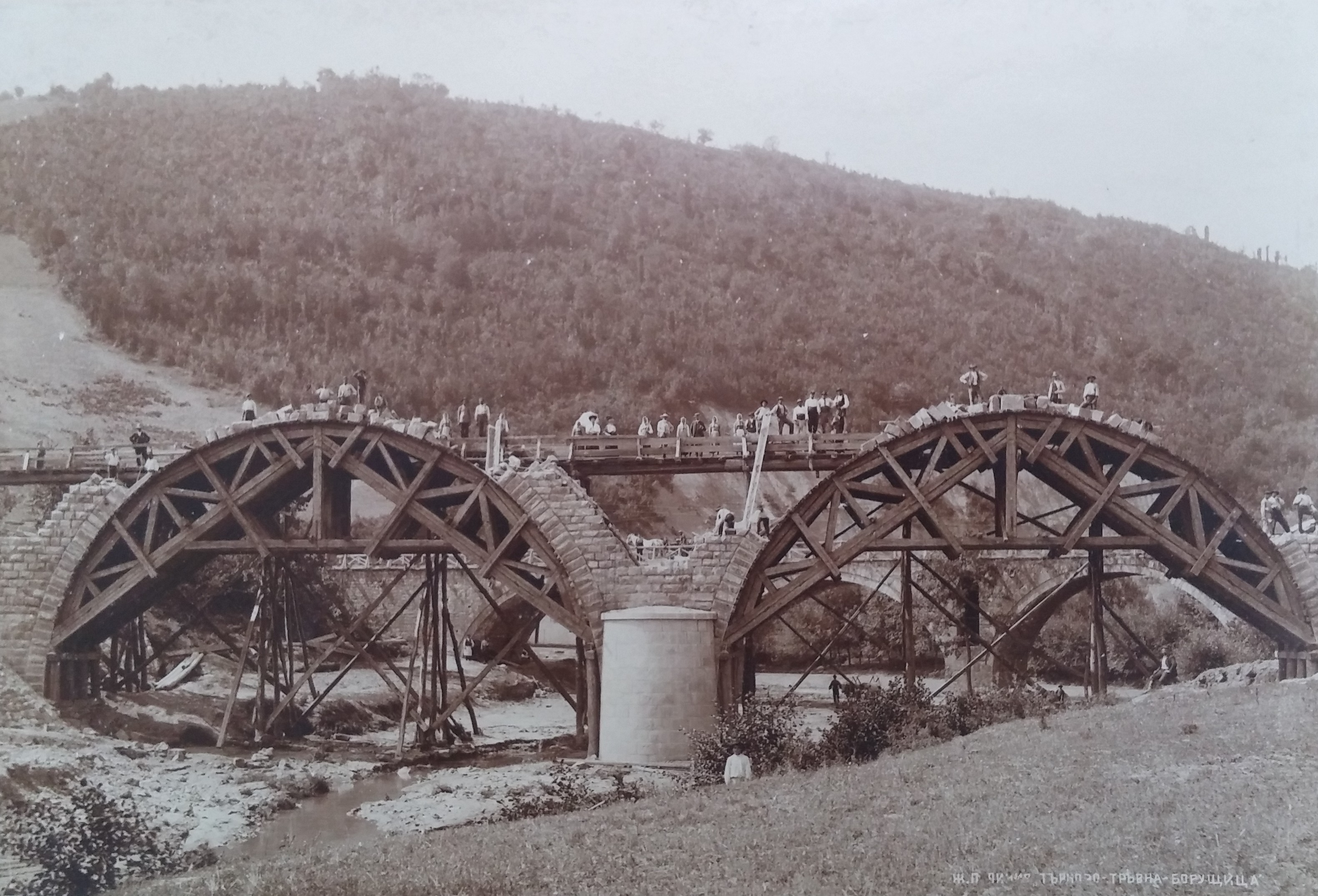 Construction of the railway line Veliko Tarnovo - Tryavna - Borushtitsa.